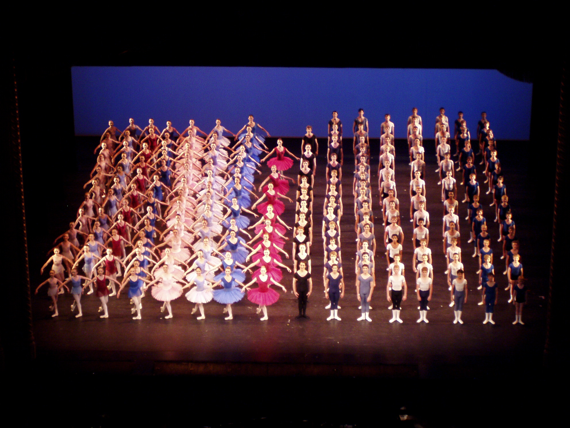 The Royal Ballet School returns to present its joyous end-of-year performances, featuring students from all age groups in a wide variety of classical and contemporary works. The highlight of the School's dance year is the annual matinee, which showcases graduate students before they embark on their professional careers as well as featuring students from all years at the Upper and Lower School. The programme includes new works and heritage pieces from The Royal Ballet repertory and culminates in a grand défilé, in which every student of the School appears on stage in a glorious choreographed curtain call.